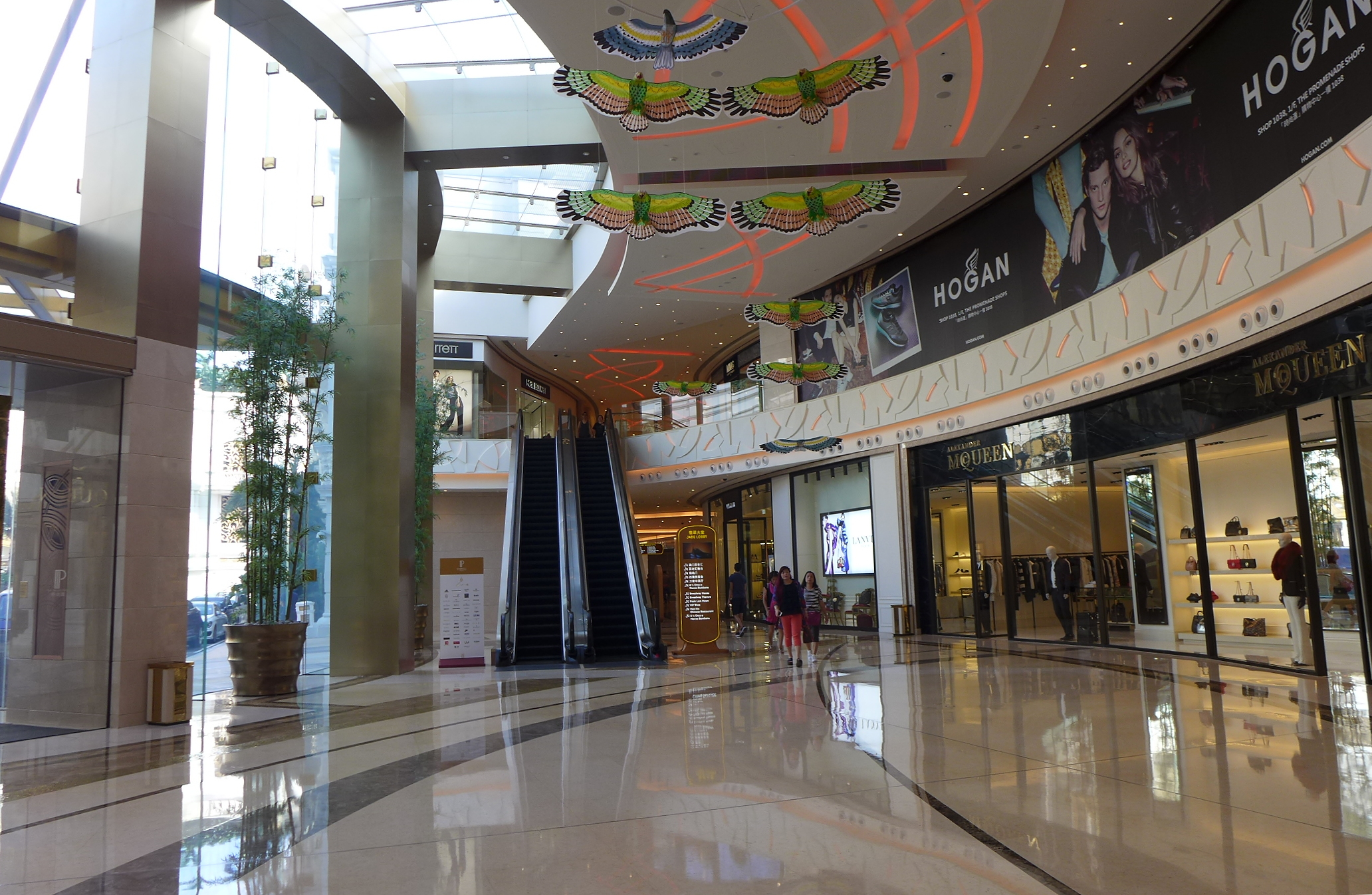 Galaxy Macau The Promenade Shops Jade Lobby